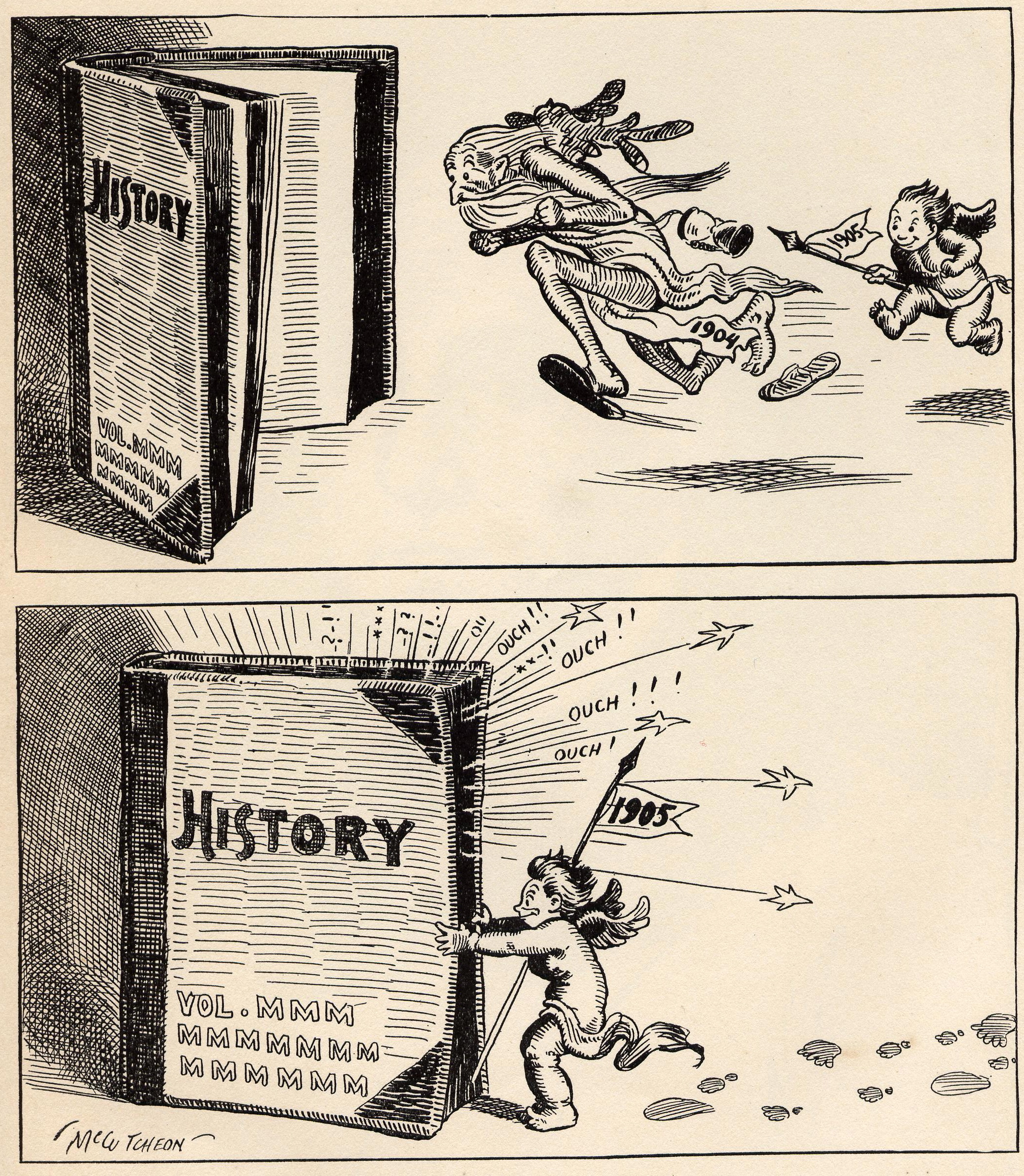 Cartoon showing baby representing New Year 1905 chasing old man 1904 into history.